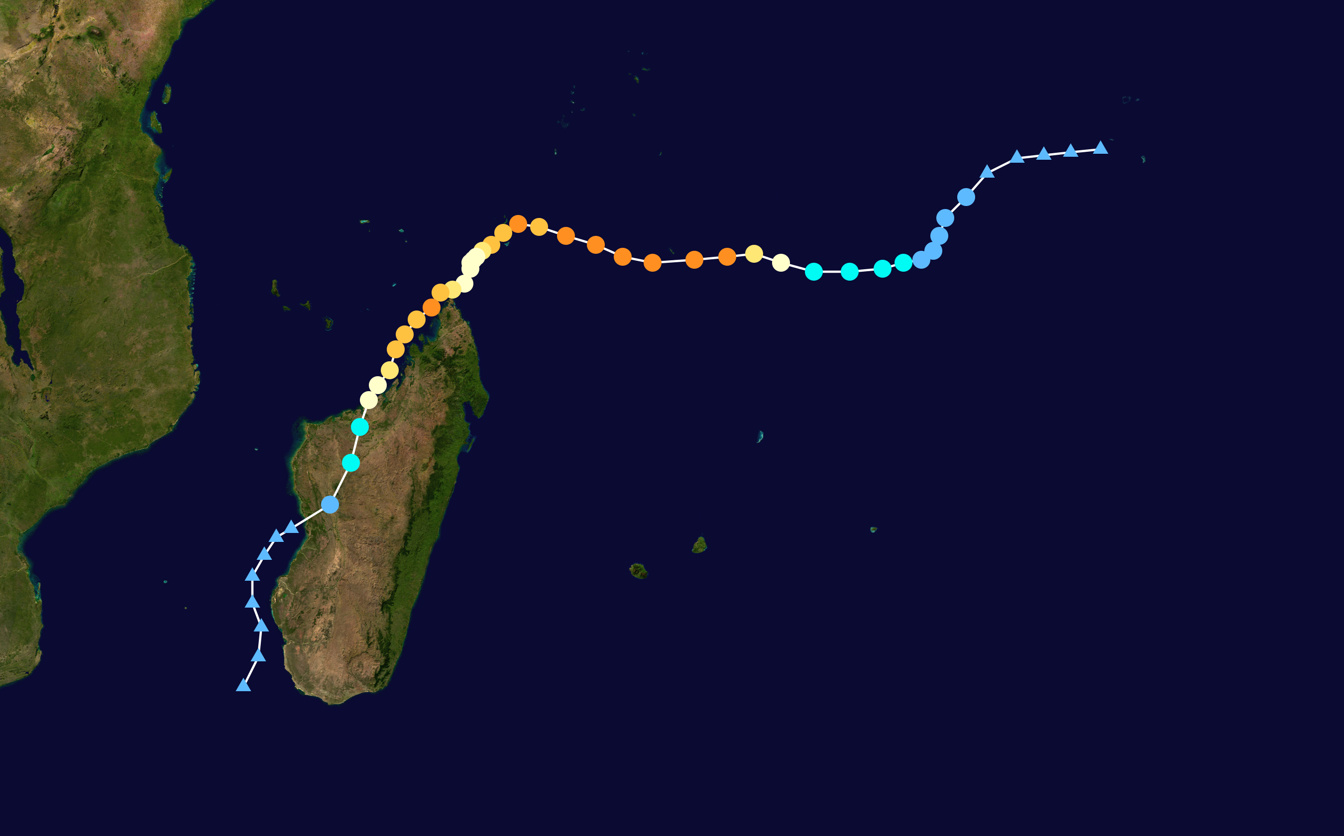 Track map of Intense Tropical Cyclone Bondo of the 2006-07 South West Indian Ocean cyclone season. The points show the location of the storm at 6-hour intervals. The colour represents the storm's maximum sustained wind speeds as classified in the Saffir–Simpson scale (see below), and the shape of the data points represent the nature of the storm, according to the legend below. Saffir–Simpson scale Tropical depression≤38 mph≤62 km/h Category 3111–129 mph178–208 km/h Tropical storm39–73 mph63–118 km/h Category 4130–156 mph209–251 km/h Category 174–95 mph119–153 km/h Category 5≥157 mph≥252 km/h Category 296–110 mph154–177 km/h Unknown Storm type Tropical cyclone Subtropical cyclone Extratropical cyclone / Remnant low / Tropical disturbance / Monsoon depression